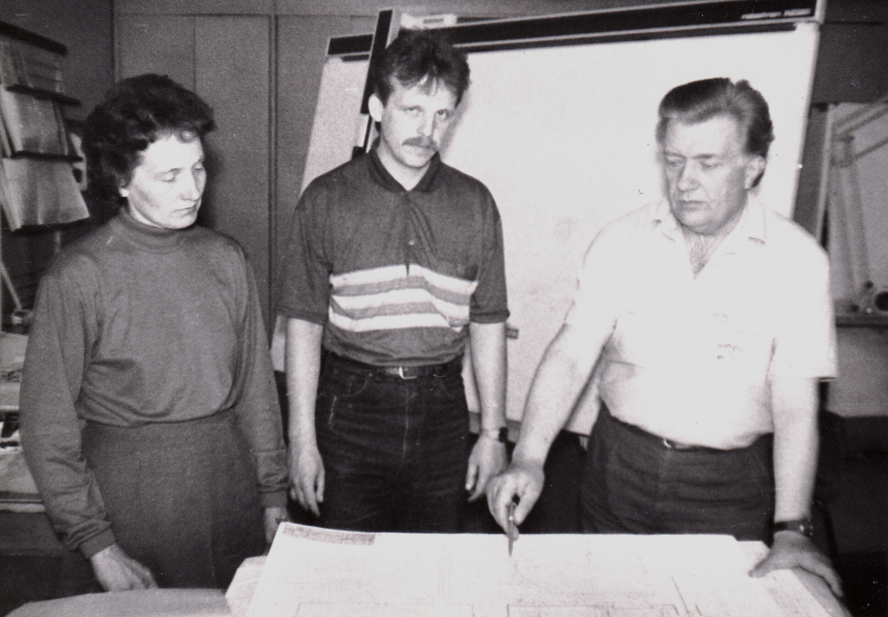 Gennadiy Rygkin